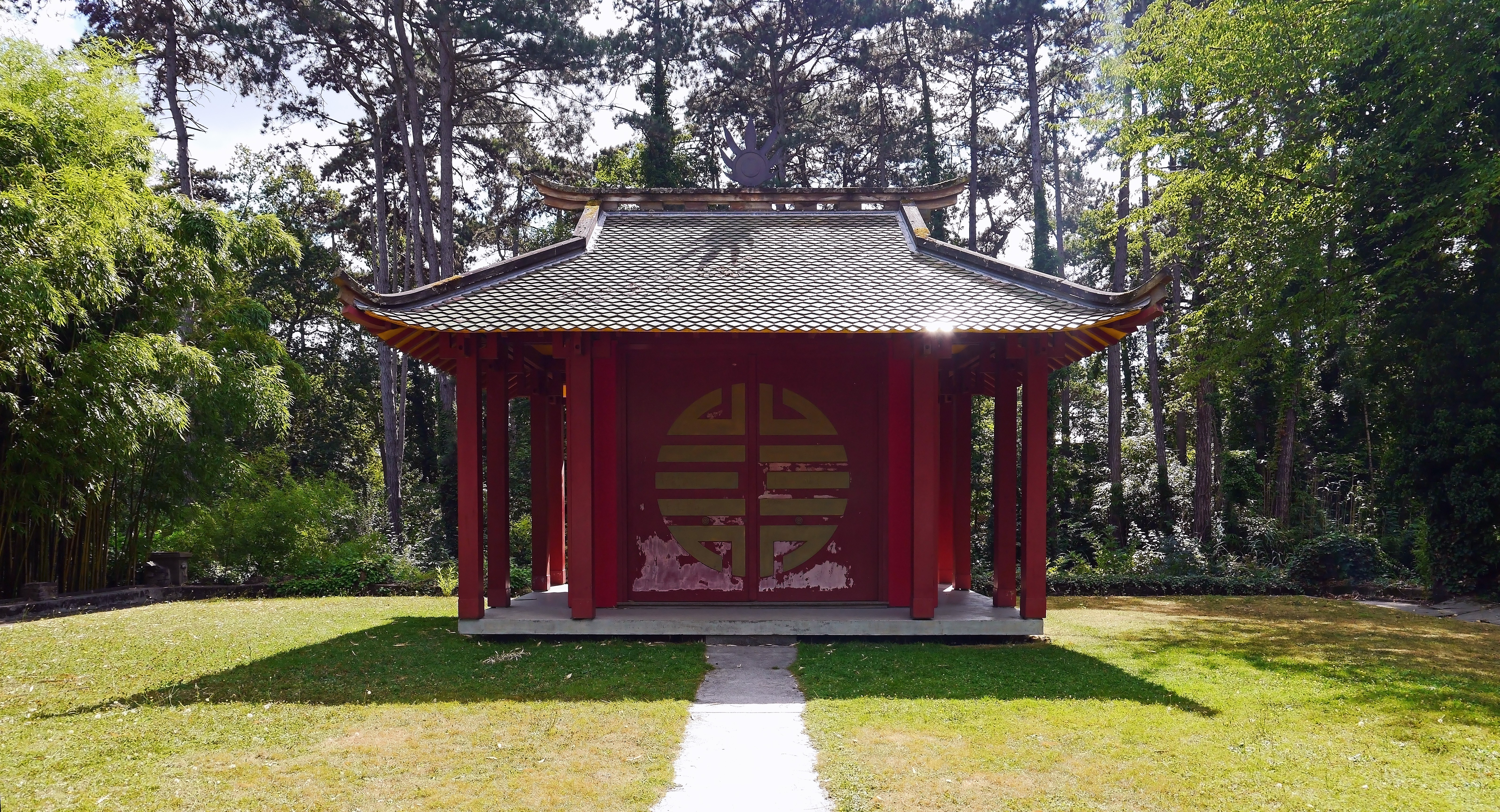 Jardin tropical, Paris 12th arrondissement, France. Temple du souvenir indochinois.